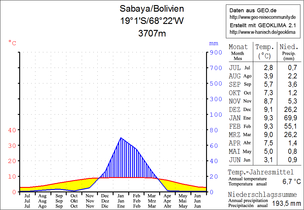 Climate chart in the Walter and Lieth format, metric, °Celsius und millimeters, made with Geoklima 2.1